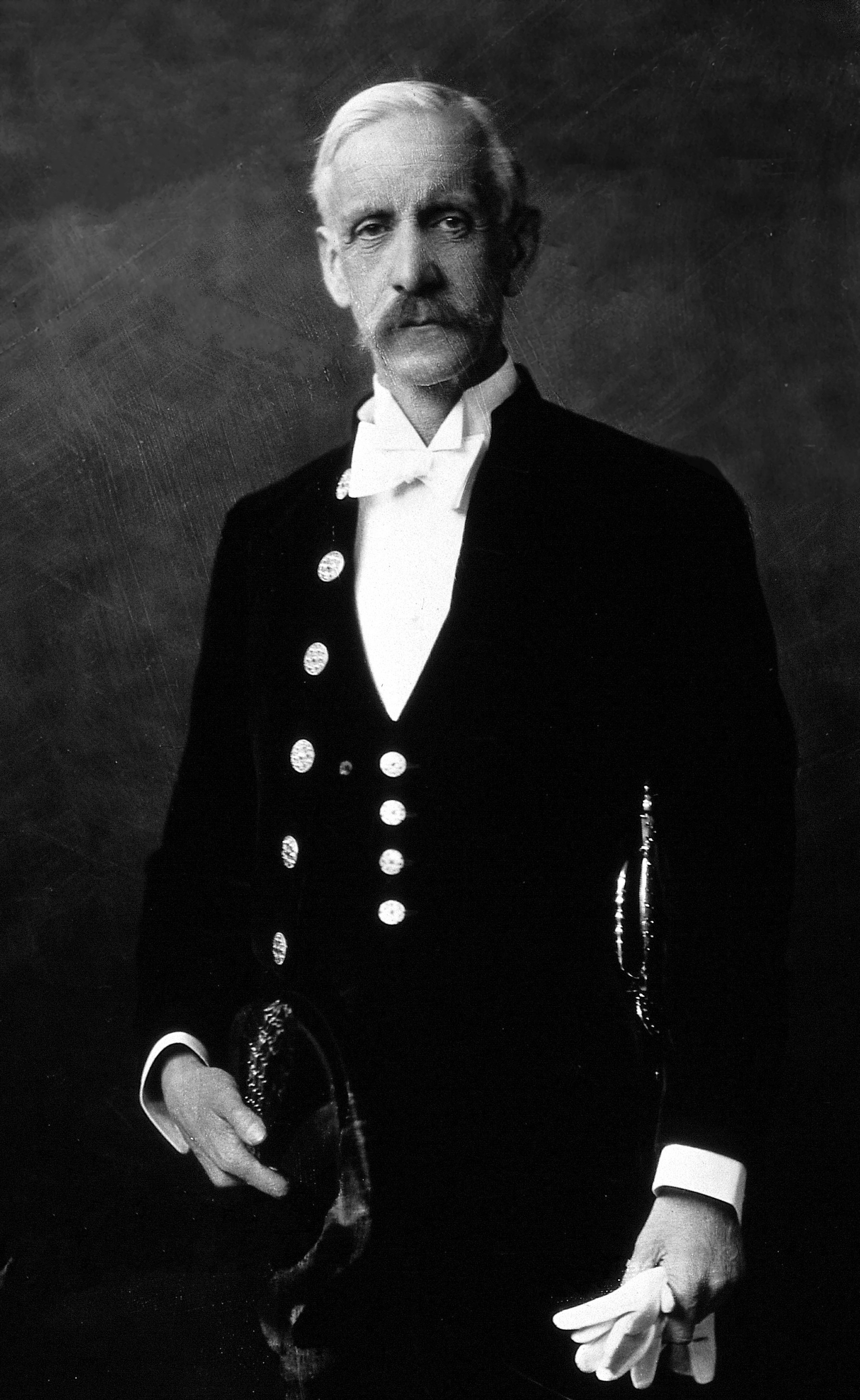 Frederick Gowland Hopkins